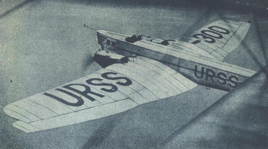 Unarmed civil version of the aircraft ТB-1, named "Strana Sovyetov" (Land of the Soviets) for a flight from Moscow to New York.